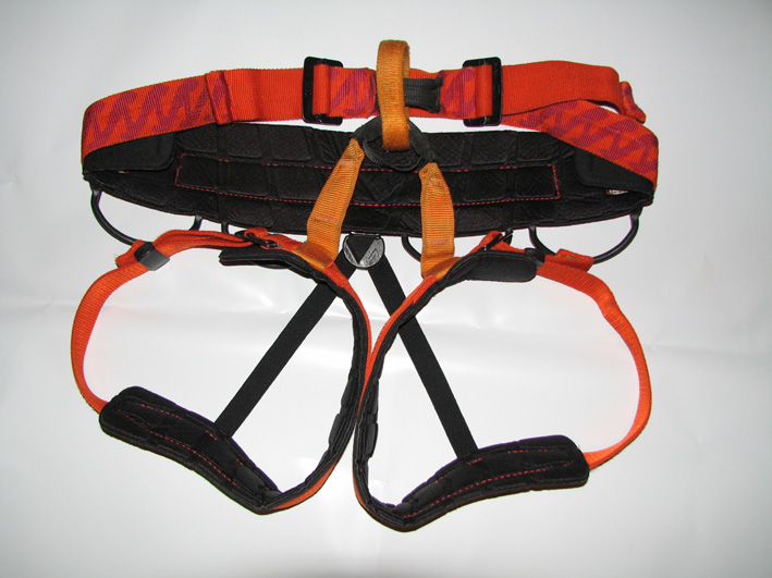 Sit harness.